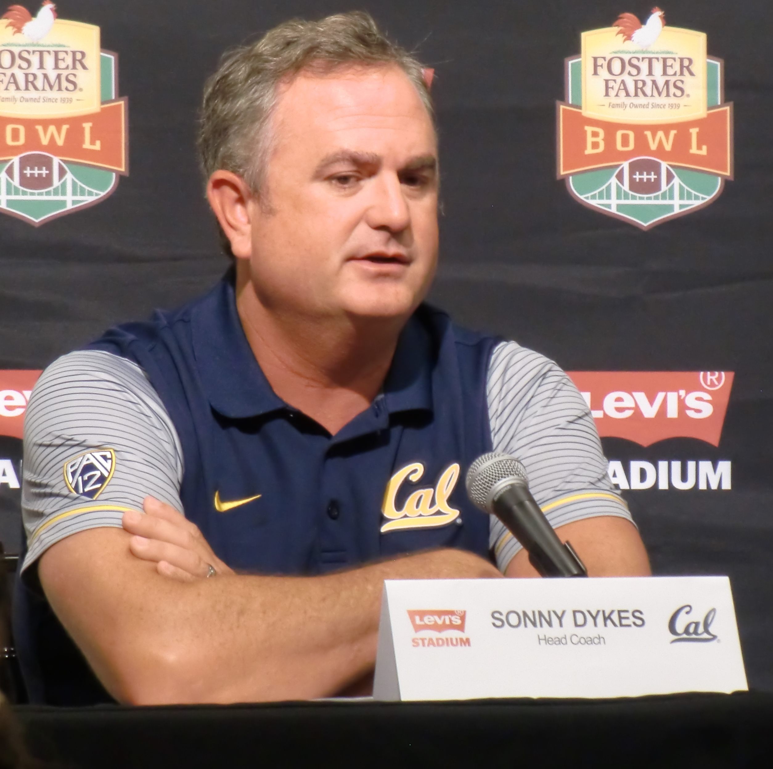 University of California, Berkeley football coach Sonny Dykes speaks at 2016 Bay Area College Football Media Day on July 28, 2016 at Levi's Stadium in Santa Clara, California.